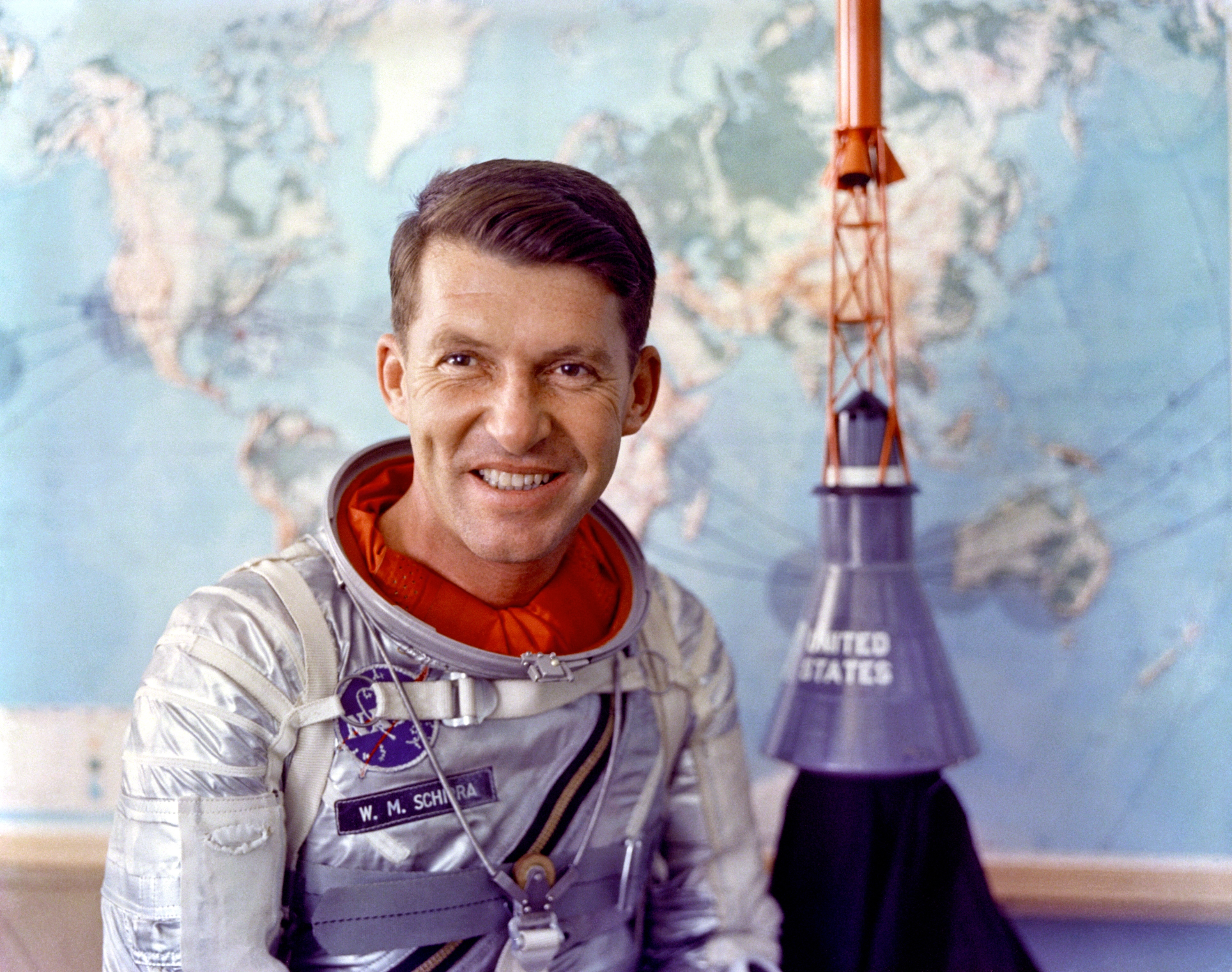 Astronaut Walter M. Schirra Jr. in Mercury pressure suit with model of Mercury capsule behind him.